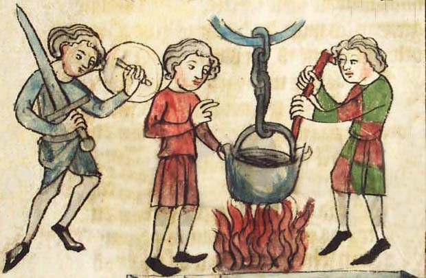 Ordeal of boiling water, illustration from manuscript. Germany cc. 1350-1375.